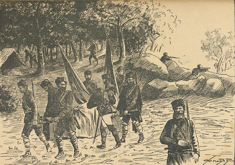 funeral of Todor Saev, bulgarian revolutionary from SMAC